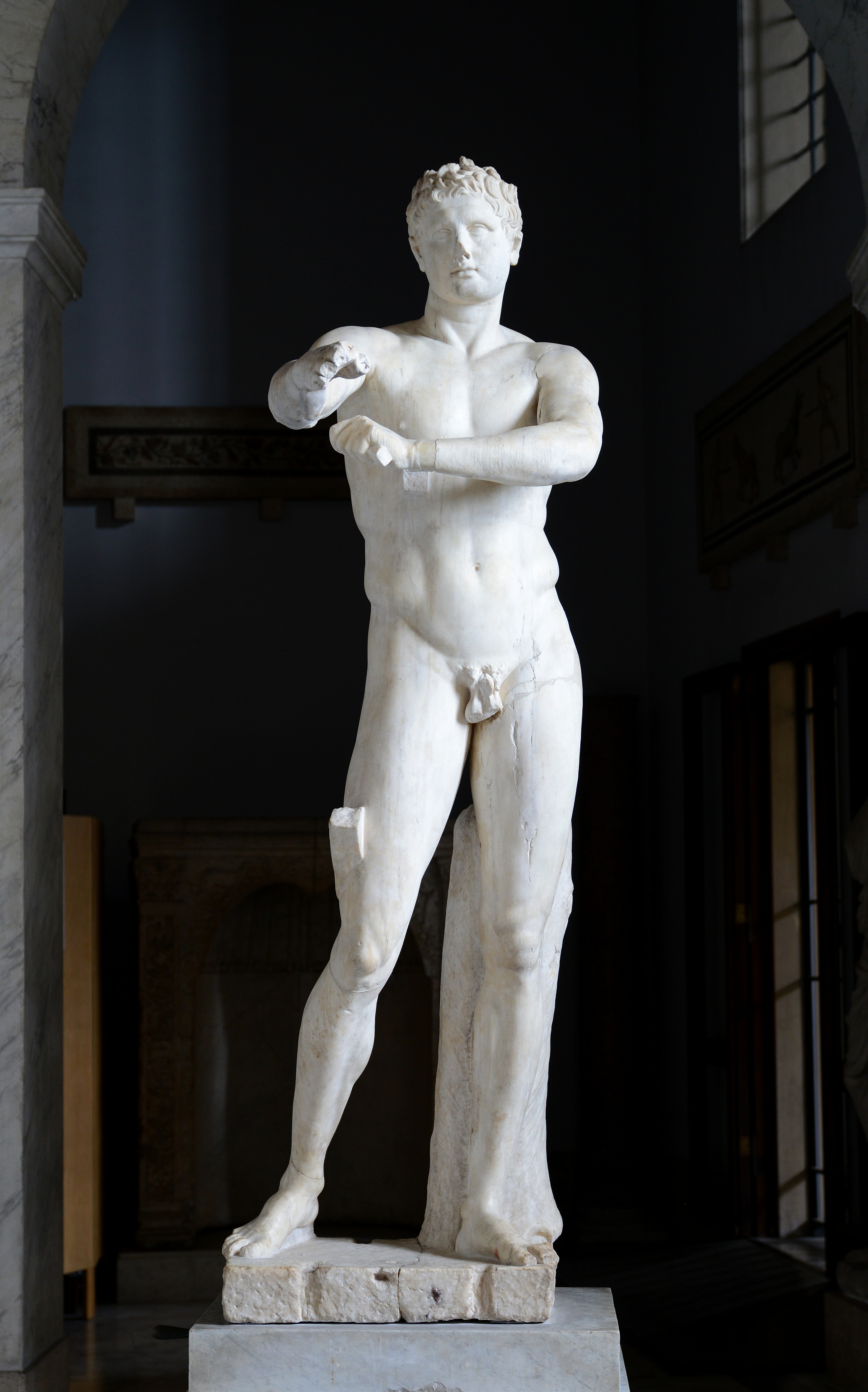 Statue of Apoxeomenos, 1st century AD, after a 4th cent. BC bronze original. Pius Clementine Museum, Vatican